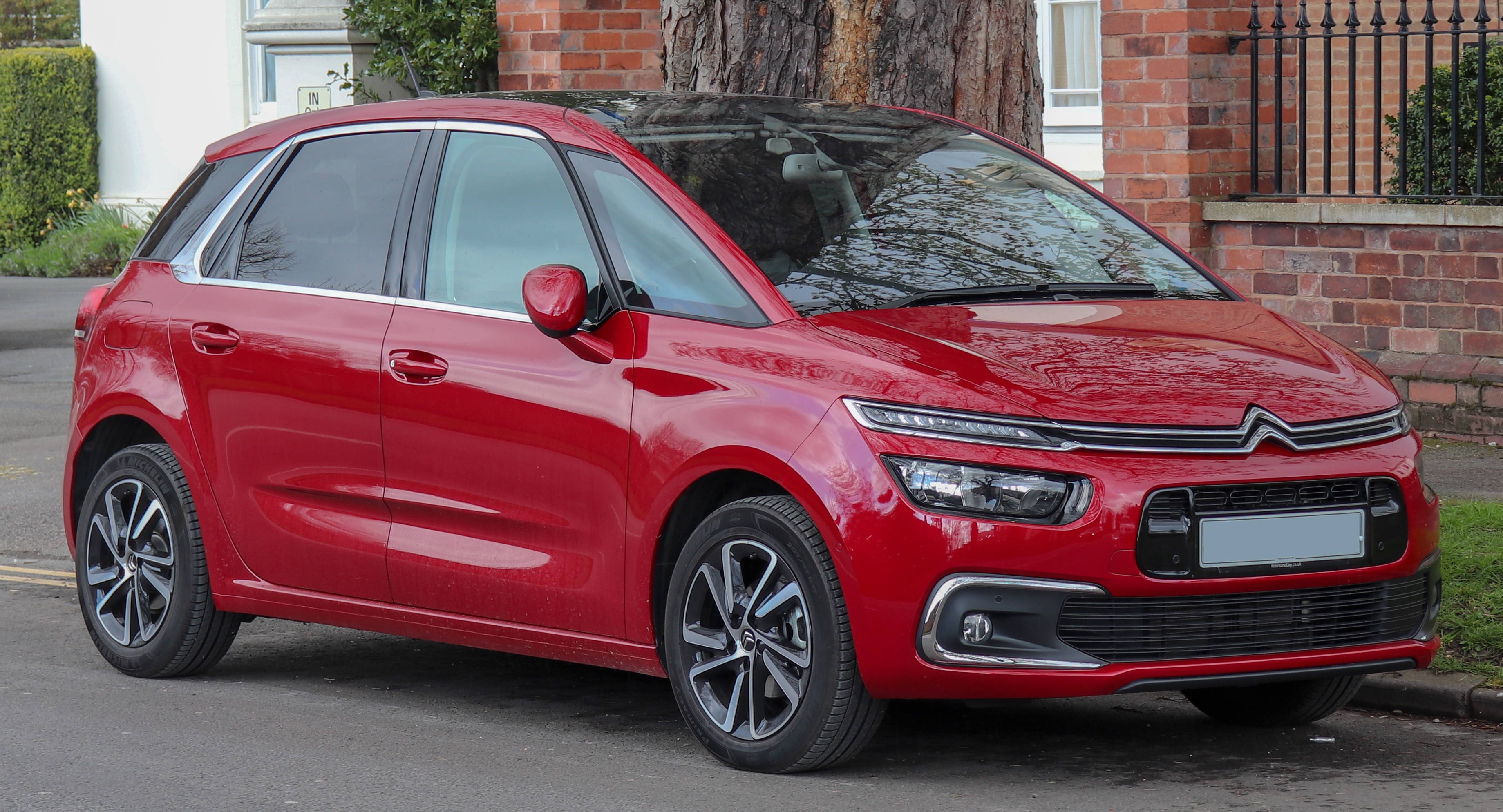 2018 Citroen C4 Spacetourer Flair BlueHDi 1.6 Front Taken in Leamington Spa